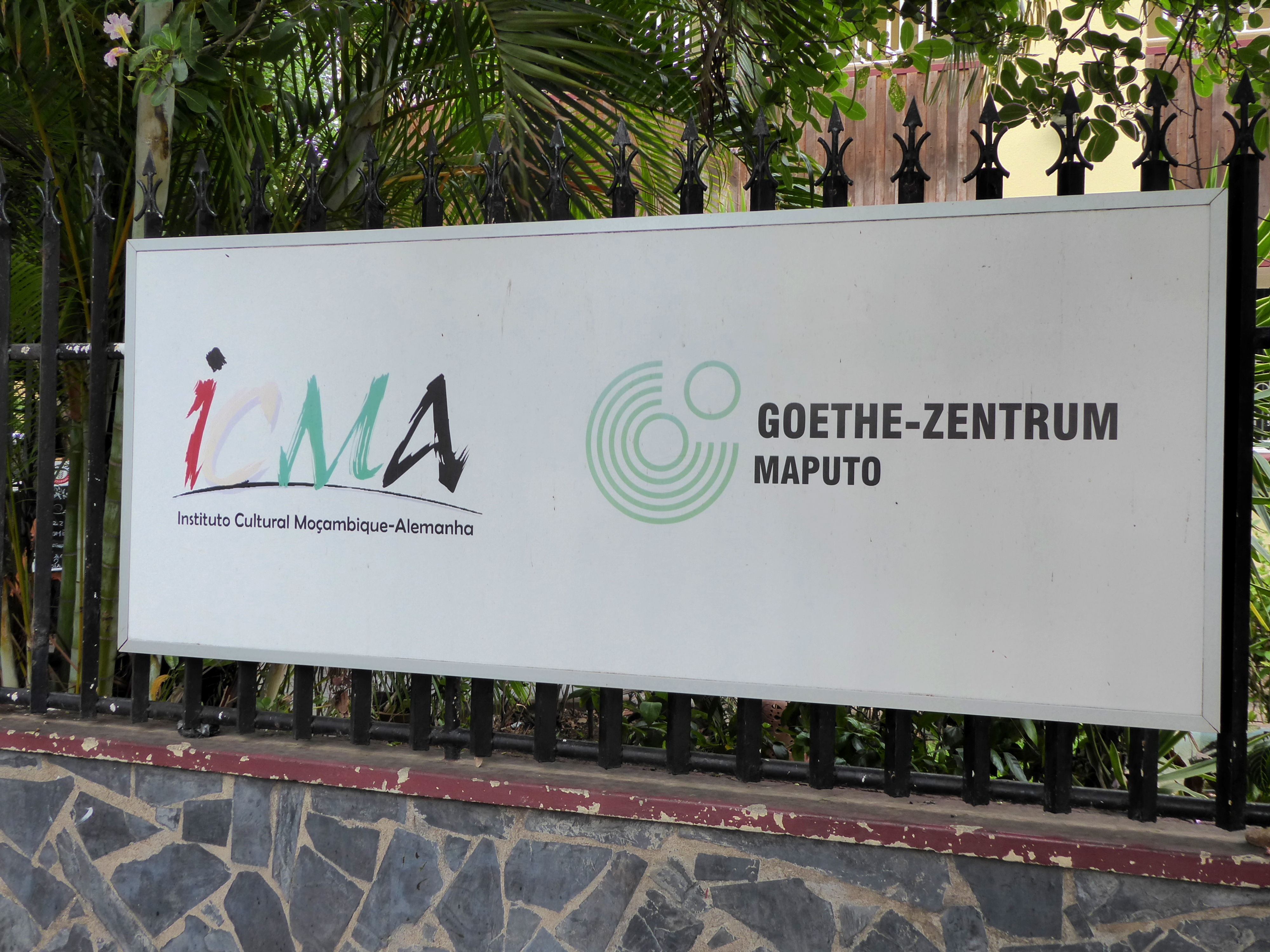 Sign of the Instituto Cultural Moçambique-Alemanha, Maputo, Mozambique